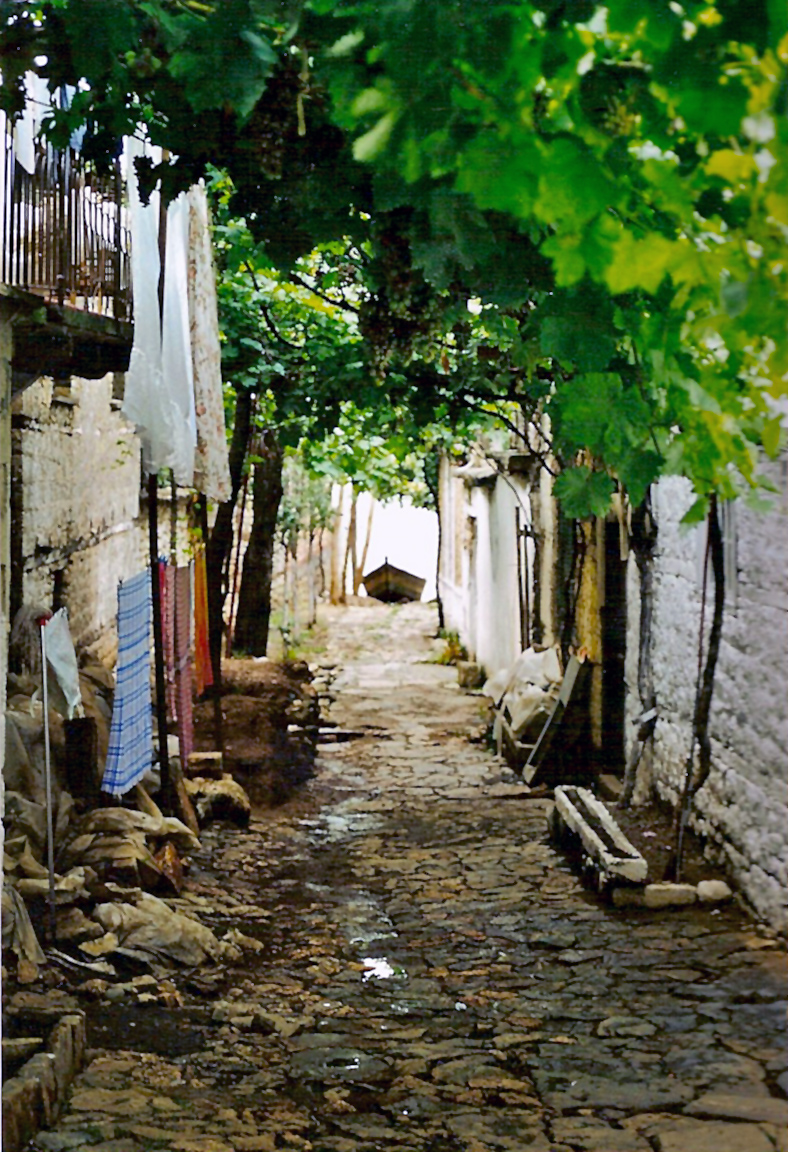 Small alley in the village of Lin, Pogradec, Lake Ohrid, Albania